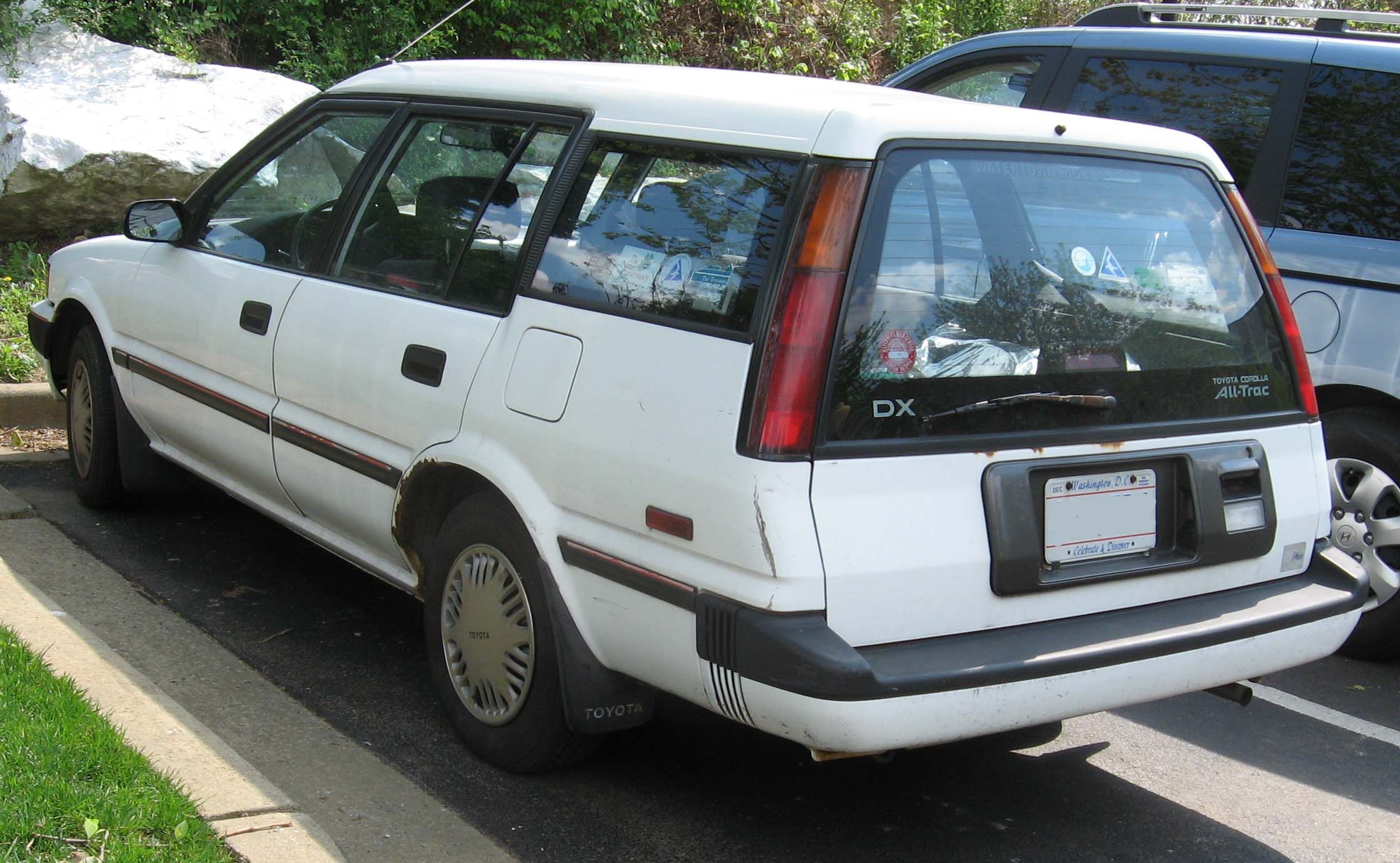 1988-1992 Toyota Corolla All-Trac wagon photographed in USA.